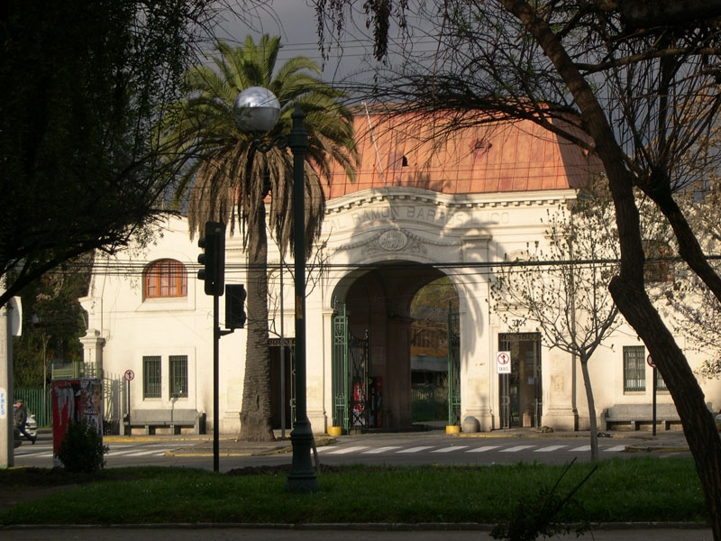 El Llano